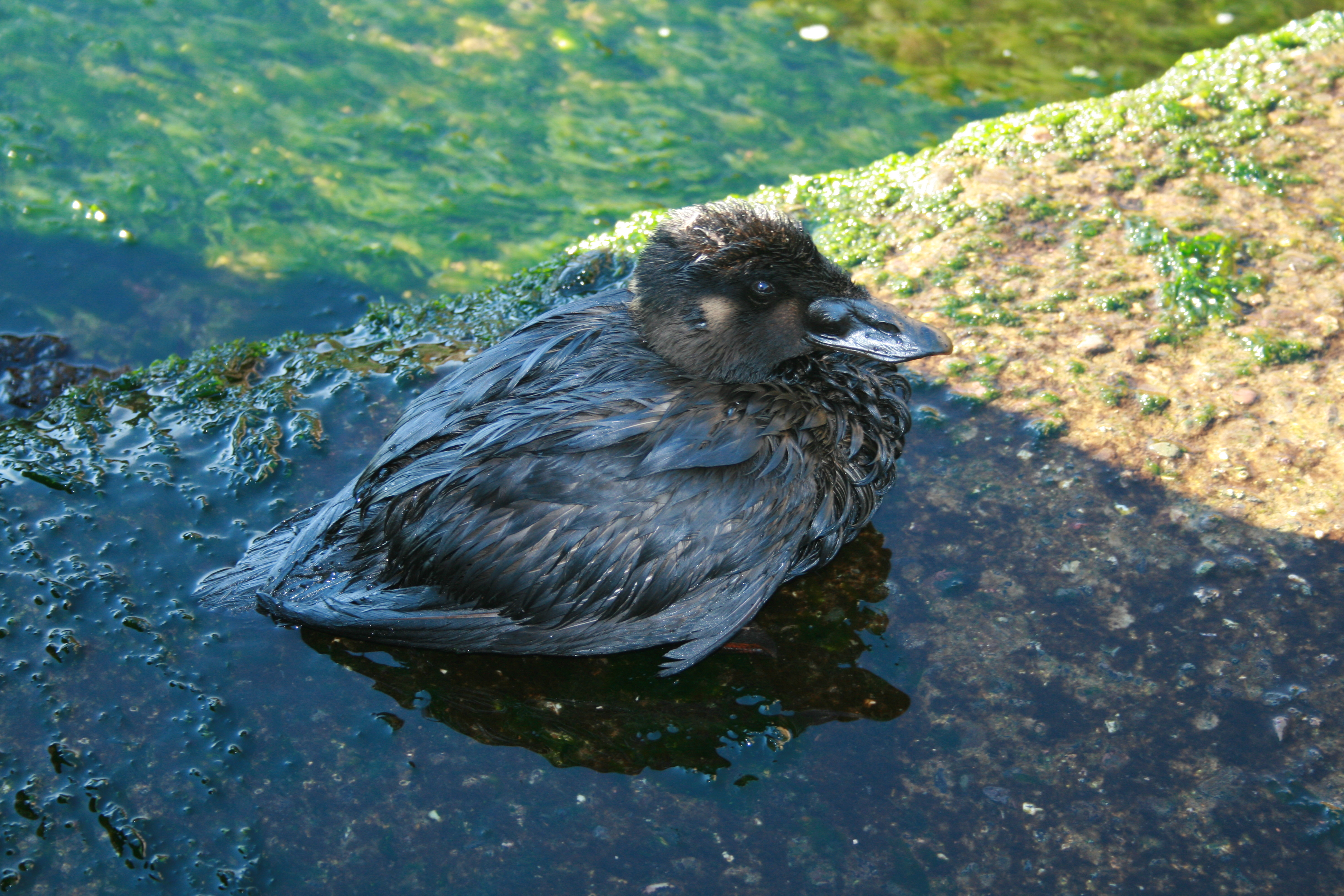 An oiled bird from Oil Spill in San Francisco Bay. About 58,000 gallons of oil spilled from a South Korea-bound container ship when it struck a tower supporting the San Francisco-Oakland Bay Bridge in dense fog on 11/07/07.